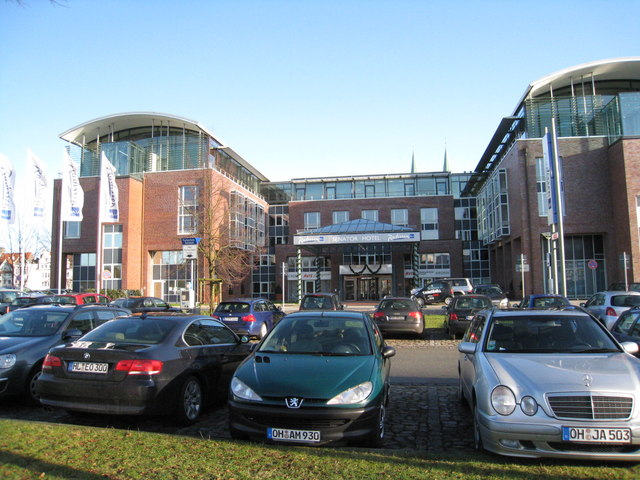 Senator Hotel, in the roof extension the offices of Oldendorff Carriers